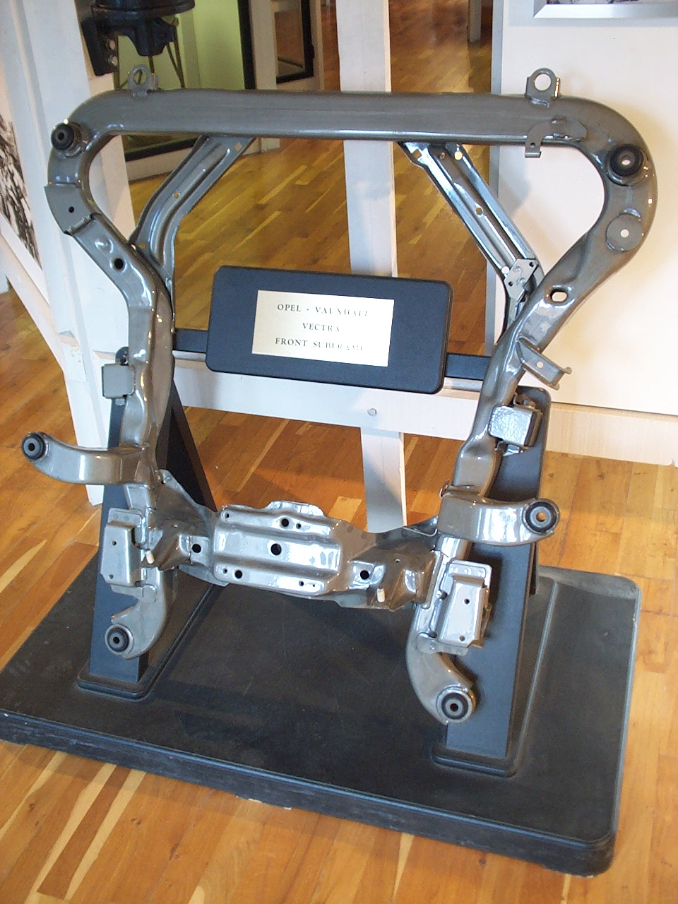 Front subframe of a Vectra car, manufactured by Vauxhall or Opel (2 subsidiaries of General Motors). It is on display in Bedford Museum.